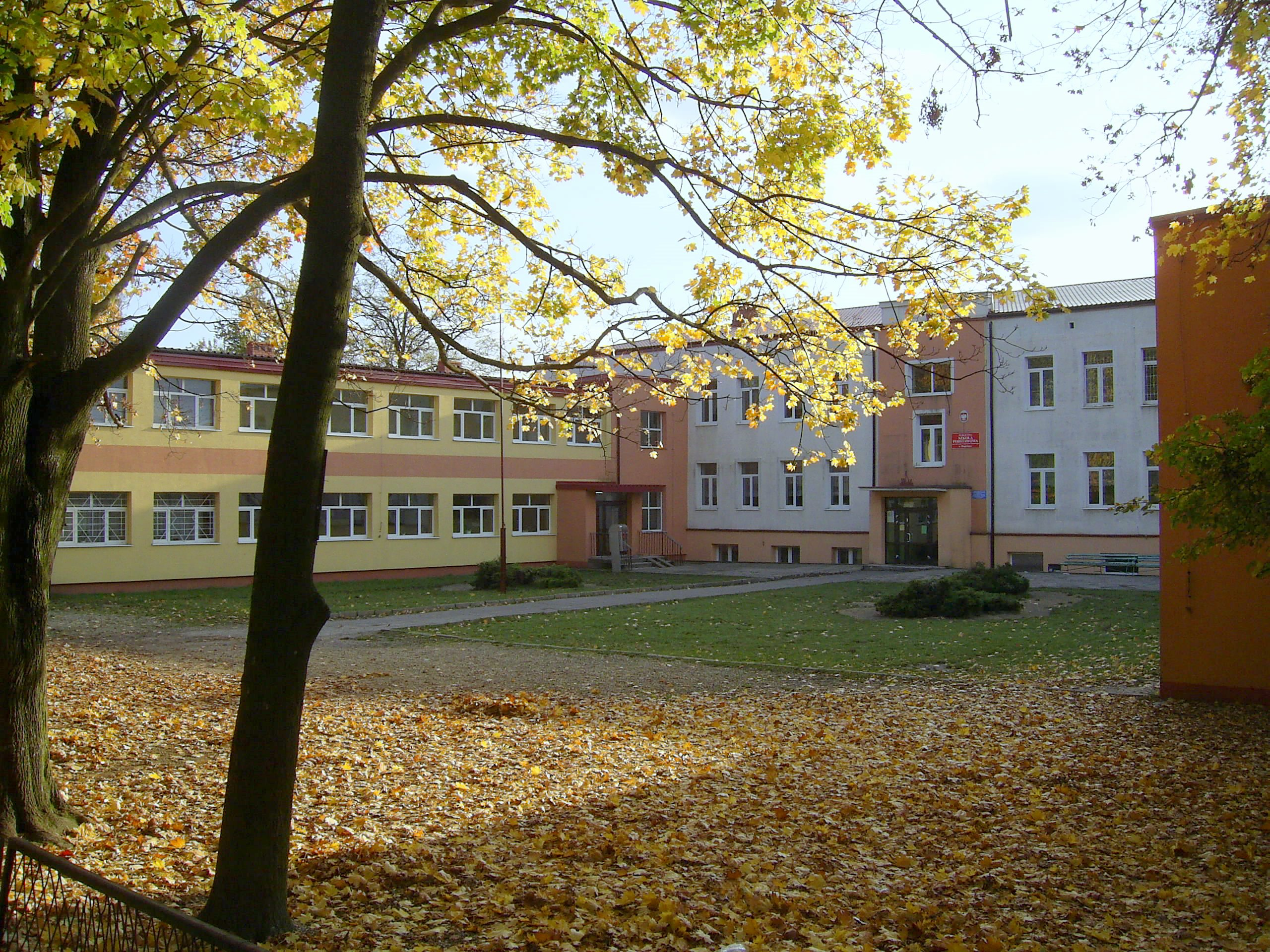 Primary school in Mogielnica